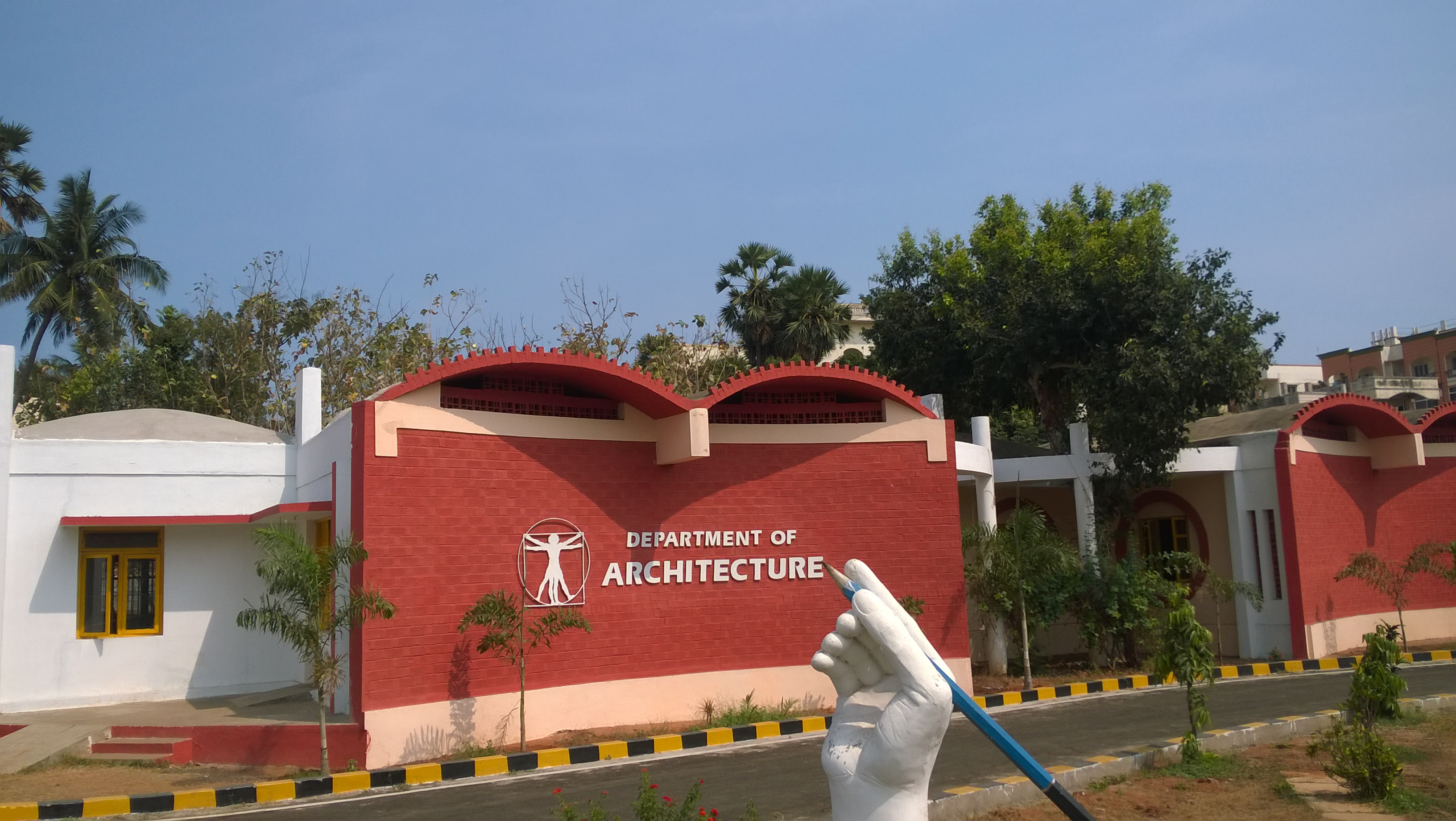 Architecture Department lobee ANDHRA UNIVERSITY COLLEGE OF ENGINEERING